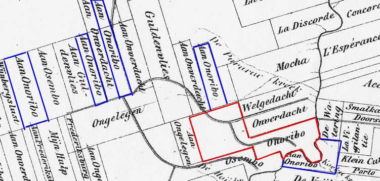 A map showing the plantations in/near Paramaribo.